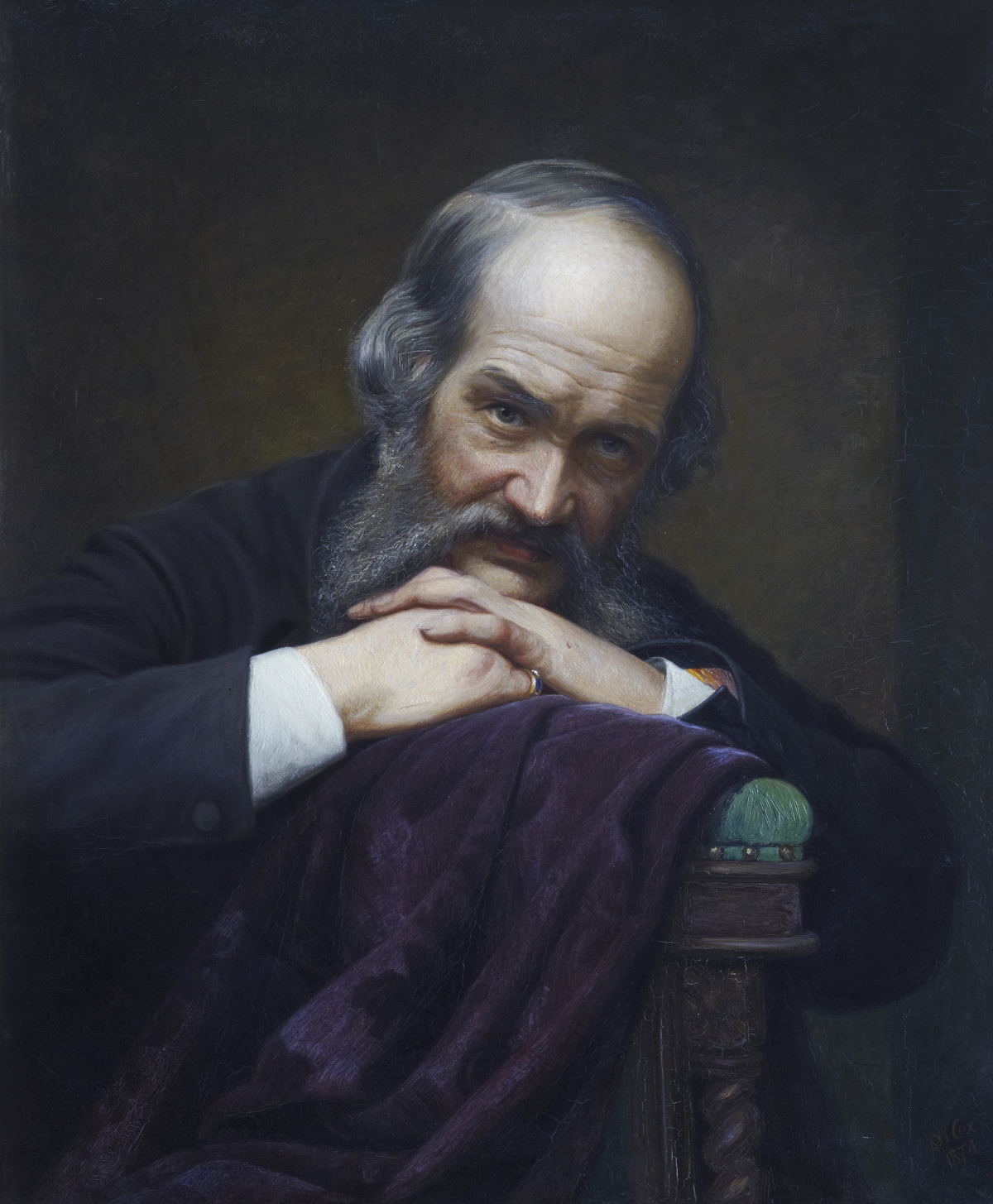 Thomas Stuart Smith Founder of the Institute 1874 by Alfred Wilson Cox